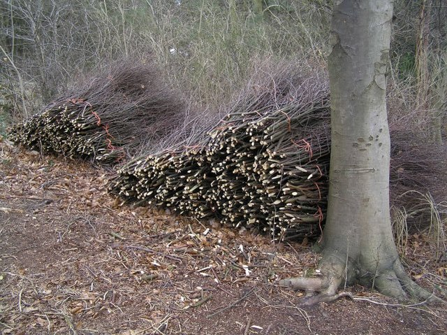 Birch twigs in bundles Cut recently presumably to make tradition besom brooms.